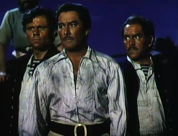 L. to R. : John Alderson, Errol Flynn & Phil Tully in Against All Flags - trailer (cropped screenshot)